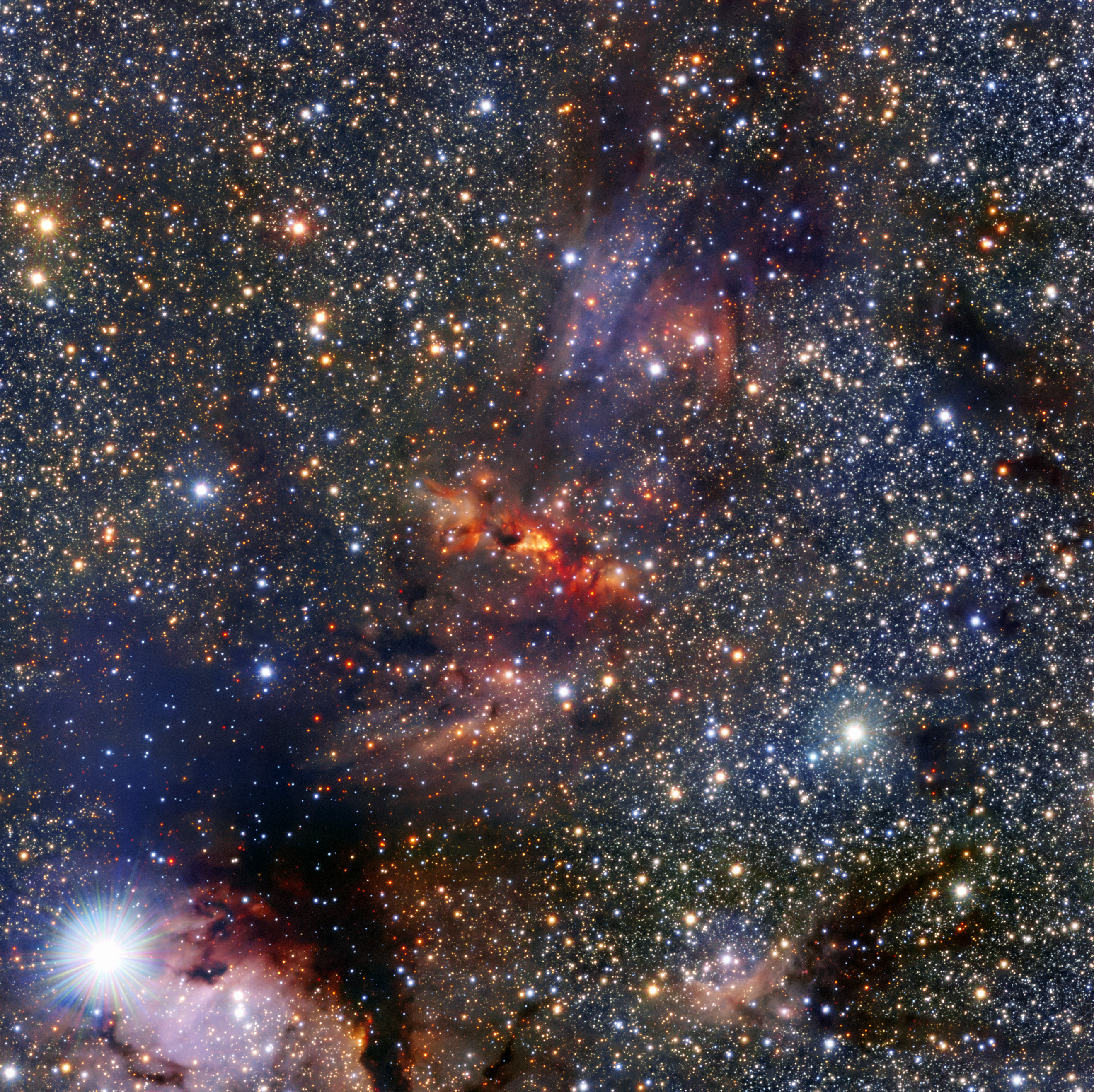 This image shows a region of the Milky Way that lies within the constellation of Scorpius, close to the central plane of the galaxy. The region hosts a dense cloud of dust and gas associated with the molecular cloud IRAS 16562-3959, clearly visible as an orange smudge among the rich pool of stars at the centre of the image. Clouds like these are breeding grounds for new stars. In the centre of this cloud the bright object known as G345.4938+01.4677 can just be seen beyond the veil of gas and dust. This is a very young star in the process of forming as the cloud collapses under gravity. The young star is very bright and heavy — roughly 15 times more massive than the Sun — and featured in a recent Atacama Large Millimeter/submillimeter Array (ALMA) result. The team of astronomers made surprising discoveries within G345.4938+01.4677 — there is a large disc of gas and dust around the forming star as well as a stream of material flowing out from it. Theories predict that neither such a stream, nor the disc itself, are likely to exist around stars like G345.4938+01.4677 because the strong radiation from such massive new stars is thought to push material away. This image was made using the Visible and Infrared Survey Telescope for Astronomy (VISTA), which is part of ESO’s Paranal Observatory in the Atacama Desert of Chile. It is the world’s largest survey telescope, with a main mirror that measures over four metres across. The colour image was produced by the VVV survey, which is one of six large public surveys that are devoted to mapping the southern sky. The bright star in the bottom left of the image is known as HD 153220.